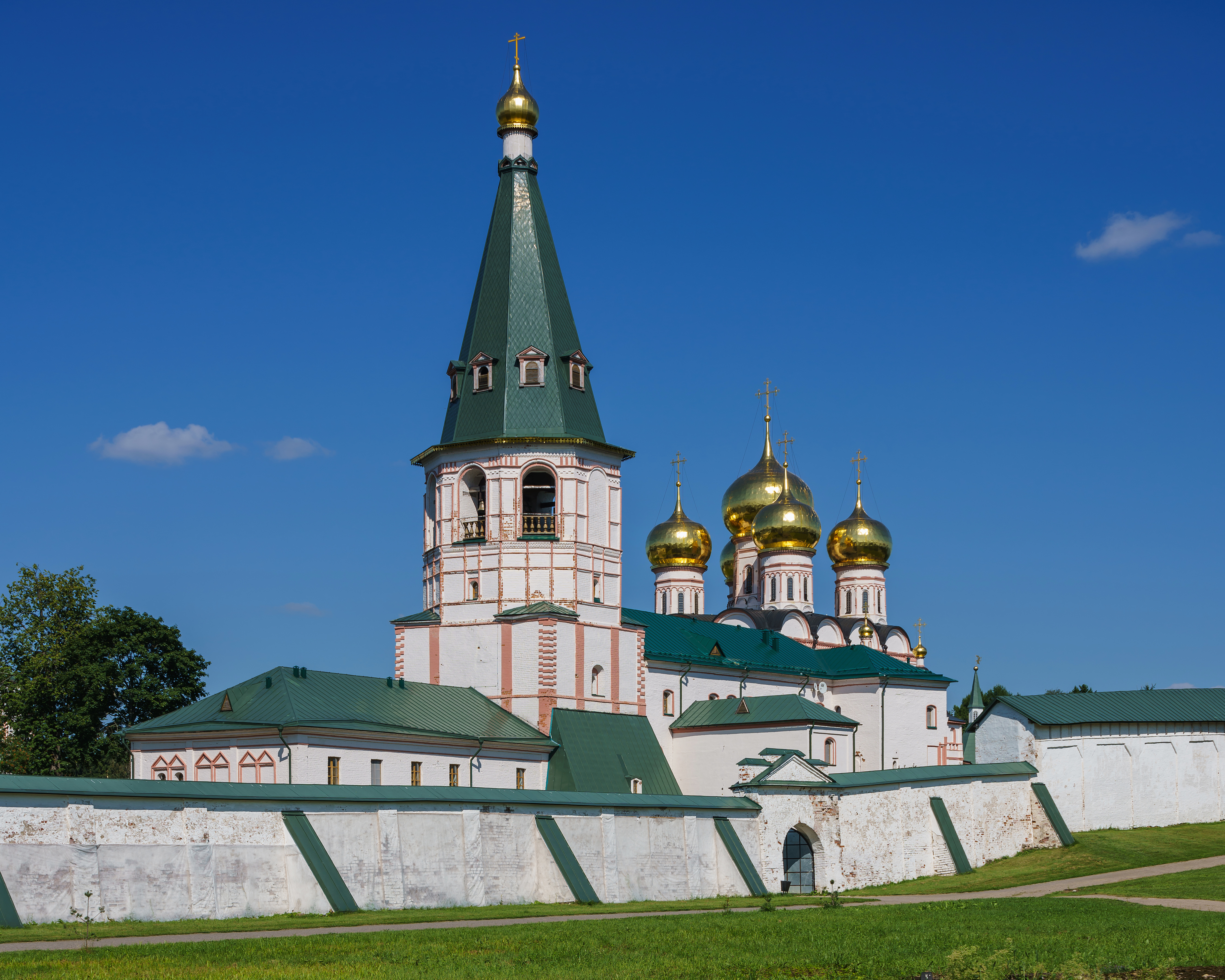 Bell tower and the South gate of Iversky Monastery in Valdai, Novgorod Oblast, Russia.